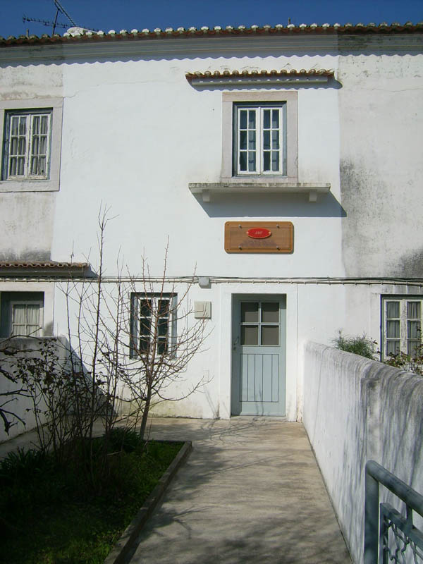 Association of Friens of the Railway Museum, Entroncamento, Portugal